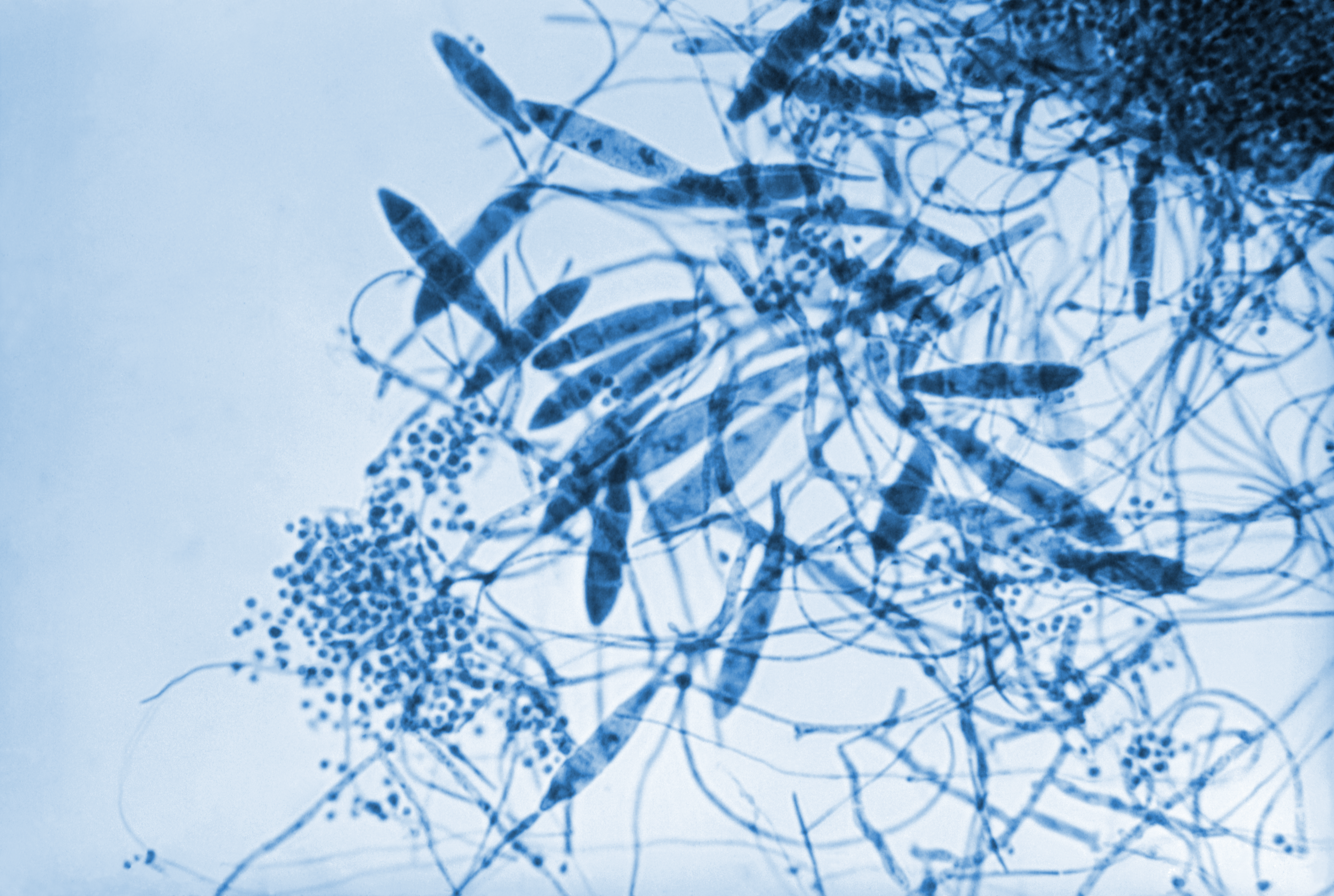 Under a magnification of 475X, this photomicrograph revealed some of the ultrastructural morphology exhibited by the dermatophytic fungal organism, Trichophyton mentagrophytes, including strands of filamentous hyphae, numbers of cigar-shaped, septate macroconidia, and numerous, spheroid-shaped microconidia.